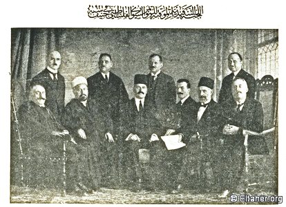 Meeting of the Interim Executive Committee of the Syro-Palestinian Congress in Geneva in 1921. Seated from right to left: Emir Shakib Arslan - Haj Toufiq Hammad - Taan Bey Al-Emad - Michel Lotfallah Bey - Imam Mohamed Rashid Reda - Suleiman Bey Kanaan. Standing from right to left: Amin Tamimi - Najib Bey Choucair - Shebly Effendi El-Jamal - Ehsan El-Jabri.